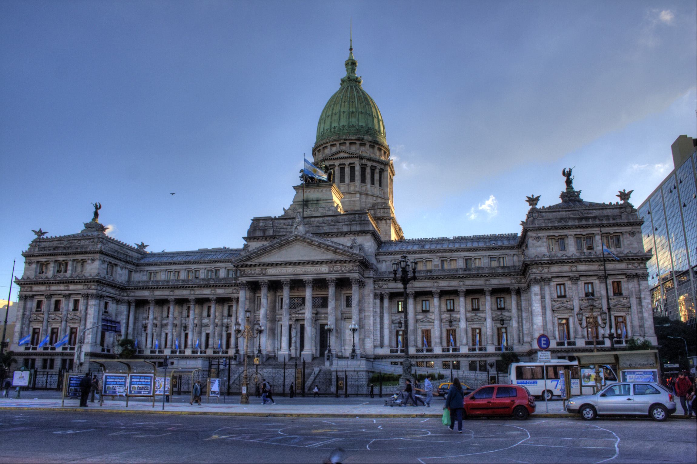 Full view of the Congreso Nacional facing Avenida Callao in Buenos Aires.